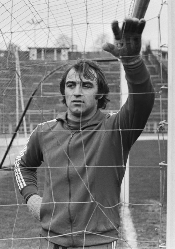 Christian Piot during a training of the Belgian national football team.